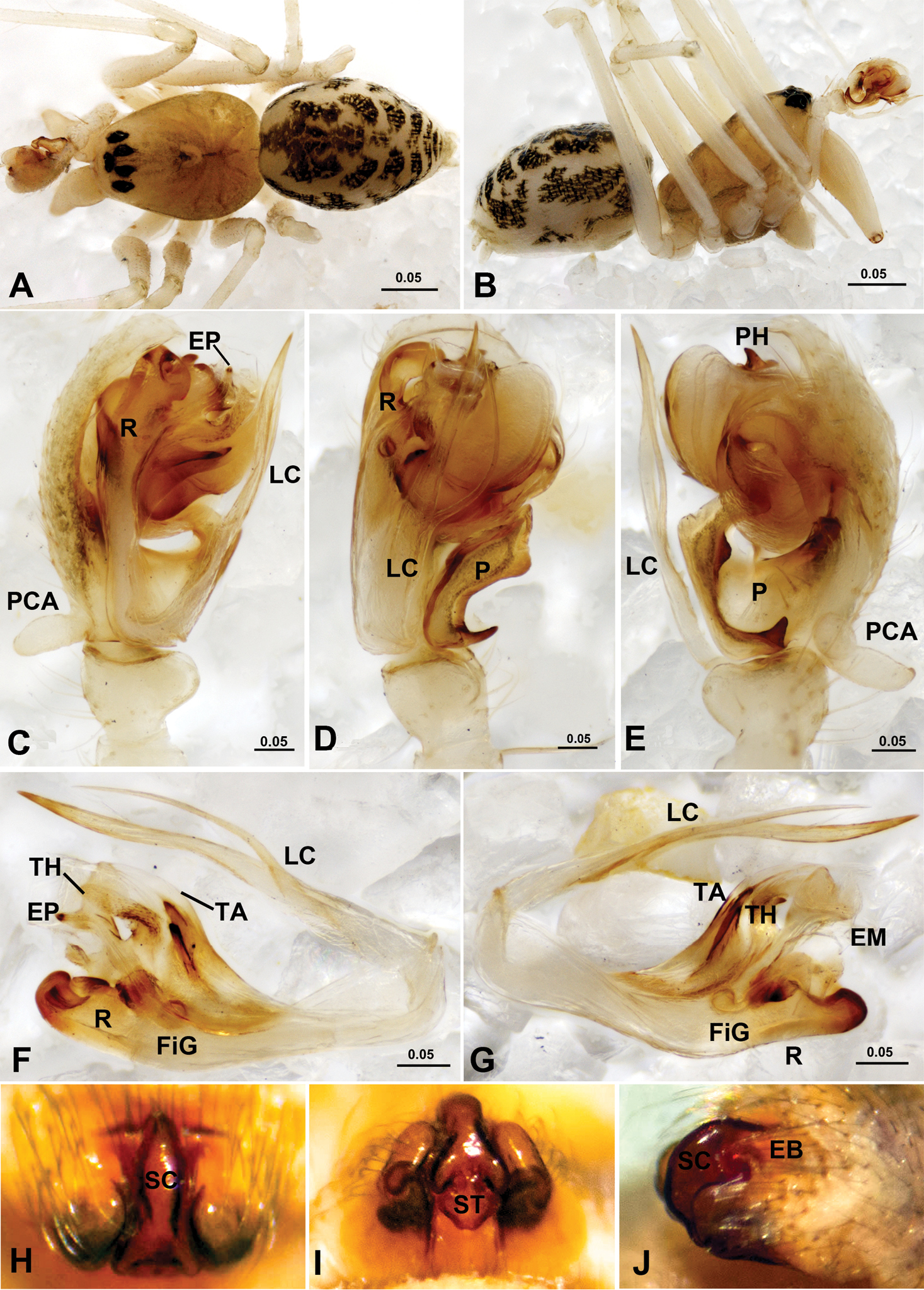 Acanthoneta dokutchaevi (A–G) and Acanthoneta aggressa (H–J). A male, dorsal B male, lateral C male palp, prolateral D male palp, ventral E male palp, retrolateral F embolic division, ventral G embolic division, dorsal H epigynum, ventral I epigynum, posterior J epigynum, lateral (H–J photos provided by Don Buckle). EB epigynal basal part; EM embolic membrane; EP embolus proper; FiG Fickert’s gland; LC lamella characteristica; P paracymbium; PCA proximal cymbial apophysis; PH pit hook; R radix; SC scape; ST stretcher; TA terminal apophysis; TH thumb of embolus. [Scale bars: mm].